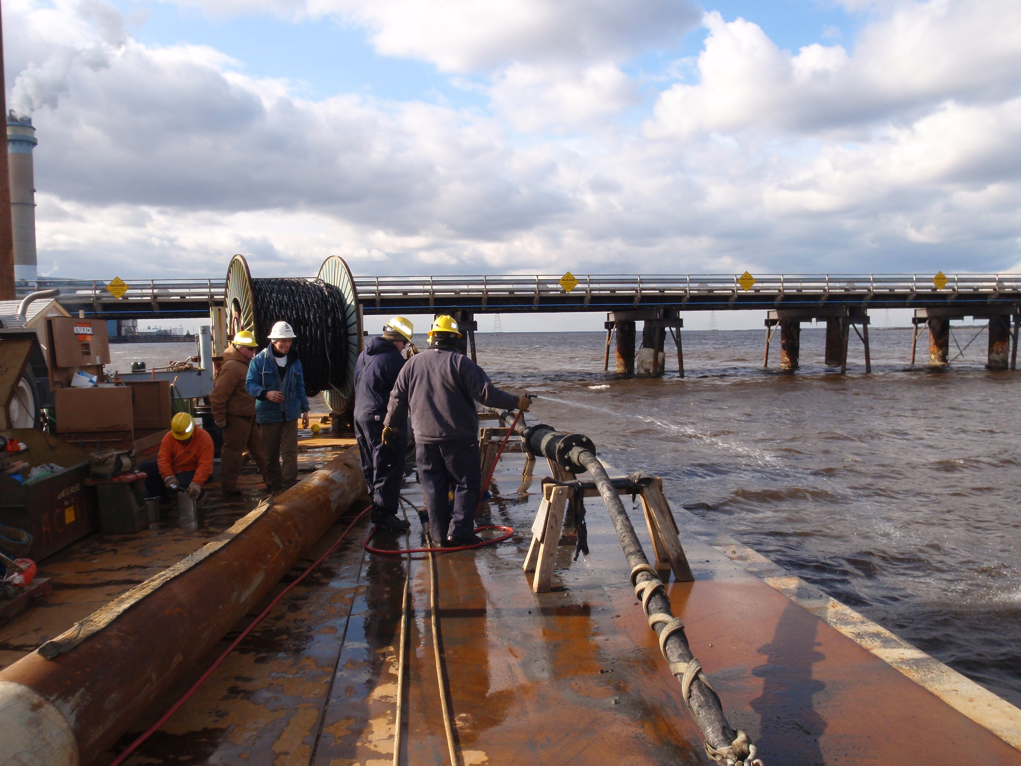 The Castle Group repairs damaged submarine cable